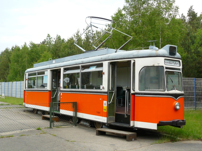 Electric tram, type Gotha T4-62 from Berlin, serving today as the ticket office for the Rügen Railway and Technology Museum in Prora, Rügen, Germany.